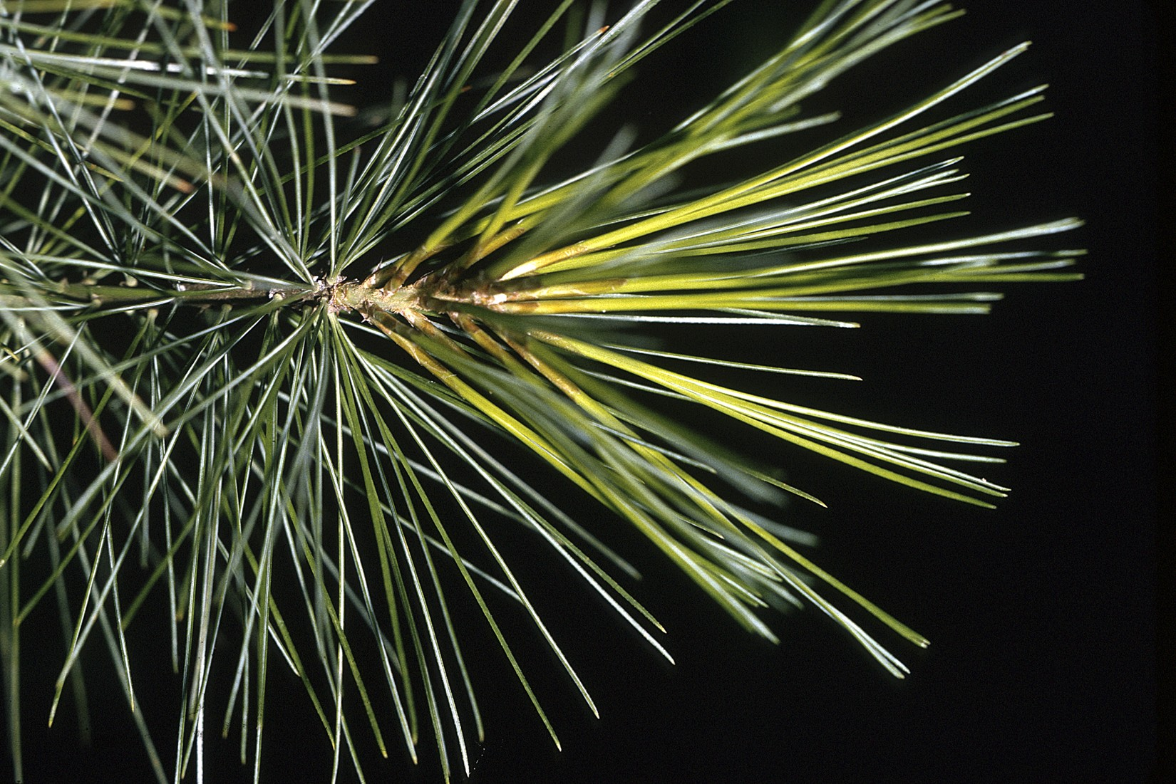 Eastern White Pine. Branch.